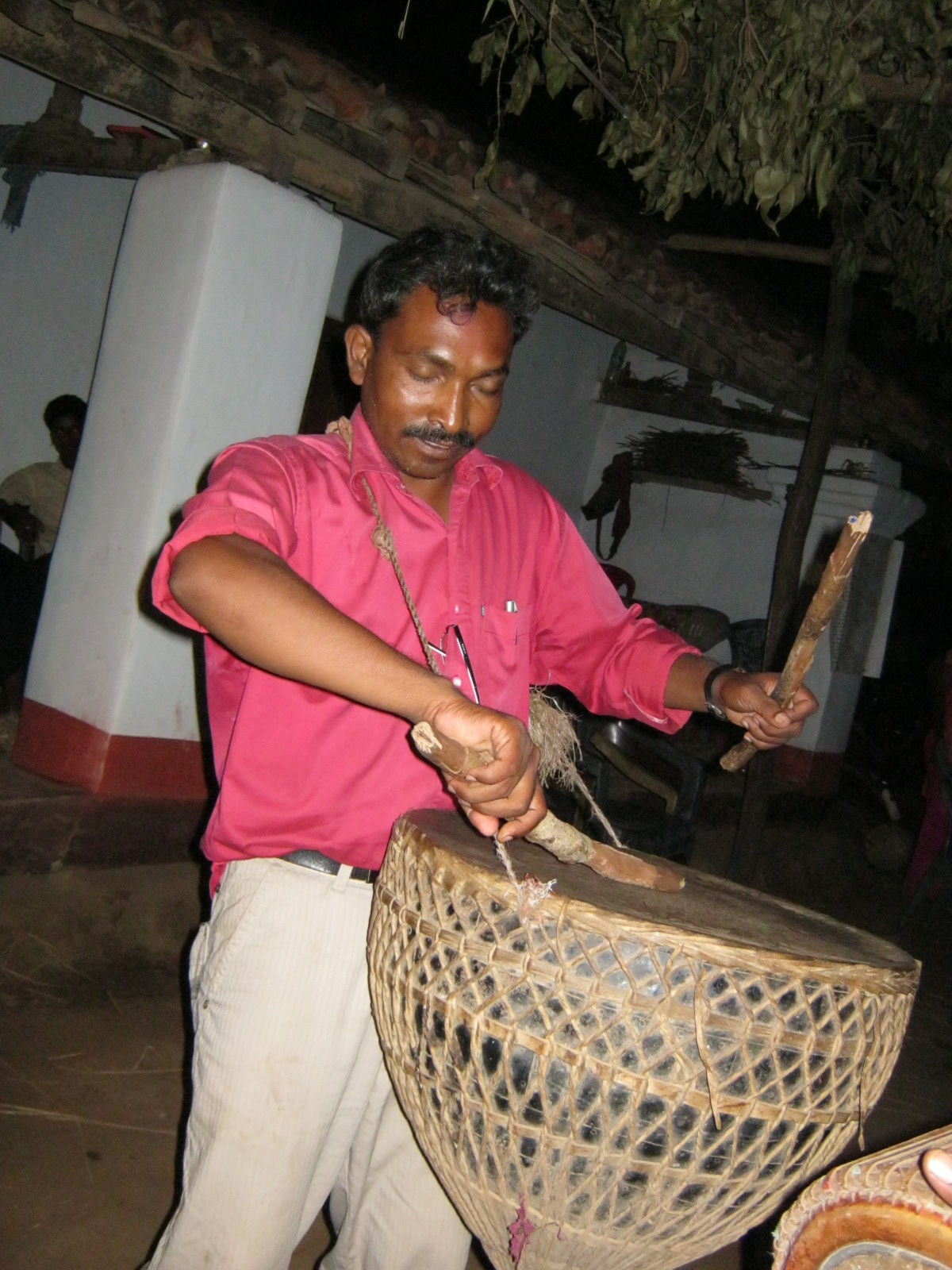 A drummer playing "Tamak".A musical instrument used by the Santhal tribe during marriage, social fests & other religious programmes.